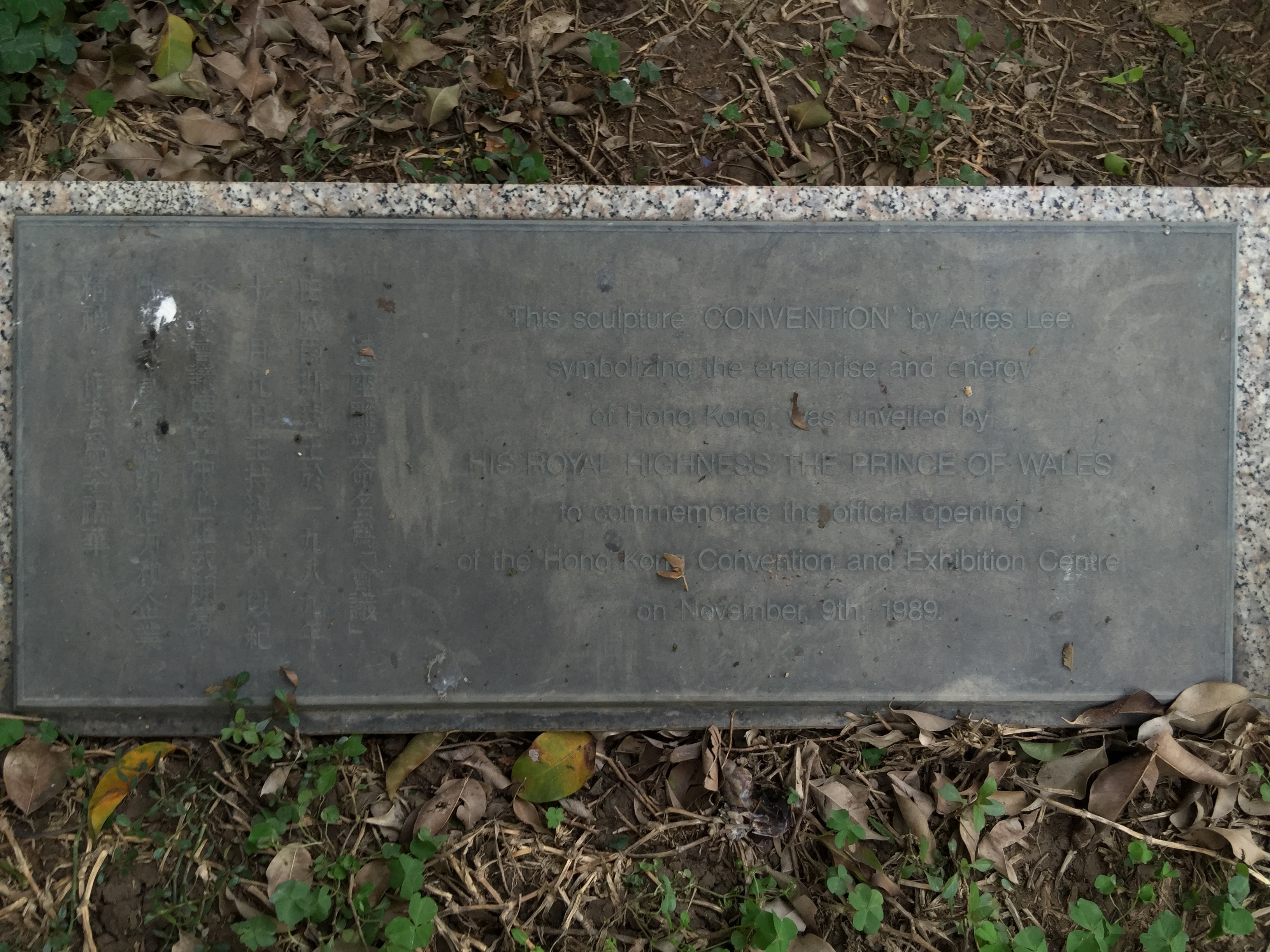 The opening plaque of HKCEC old wing